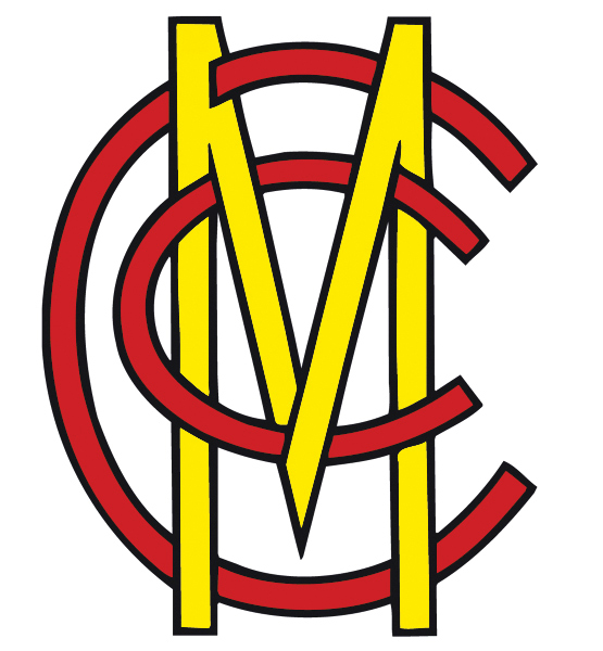 The symbol, emblem, logo of the Marylebone Cricket Club based at Lord's Cricket Ground, London